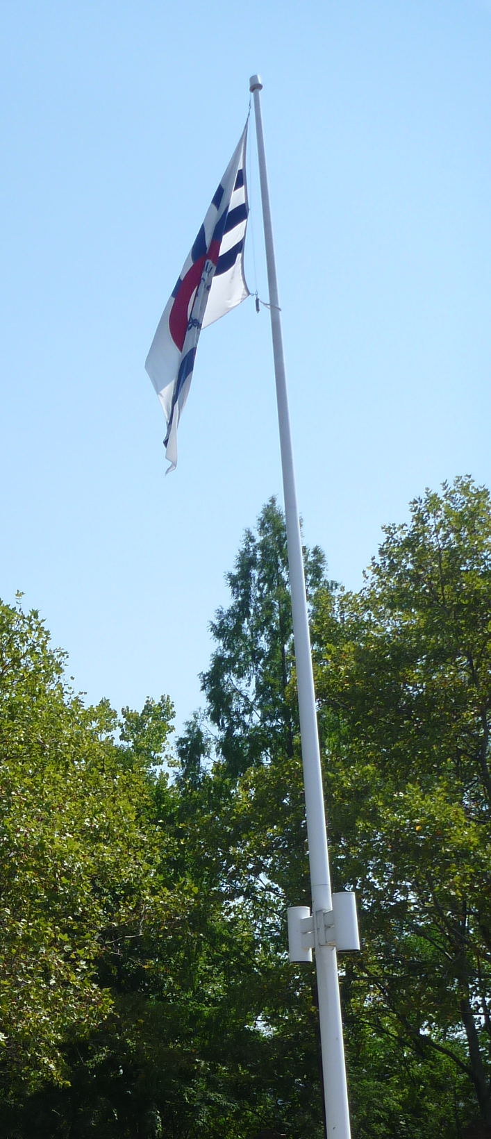 A flag of Cincinnati over the bronze statue of Lucius Quinctius Cincinnatus at Bicentennial Commons at Sawyer Point in Cincinnati, Ohio, United States. The statue itself is cropped out because the United States lacks freedom of panorama. A flag of Ohio flies nearby.